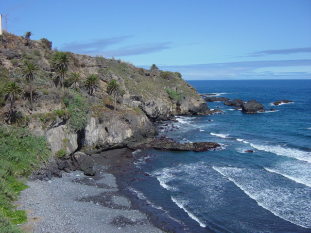 Castro Beach (Los Realejos) Tenerife, Canary Islands, (Spain).